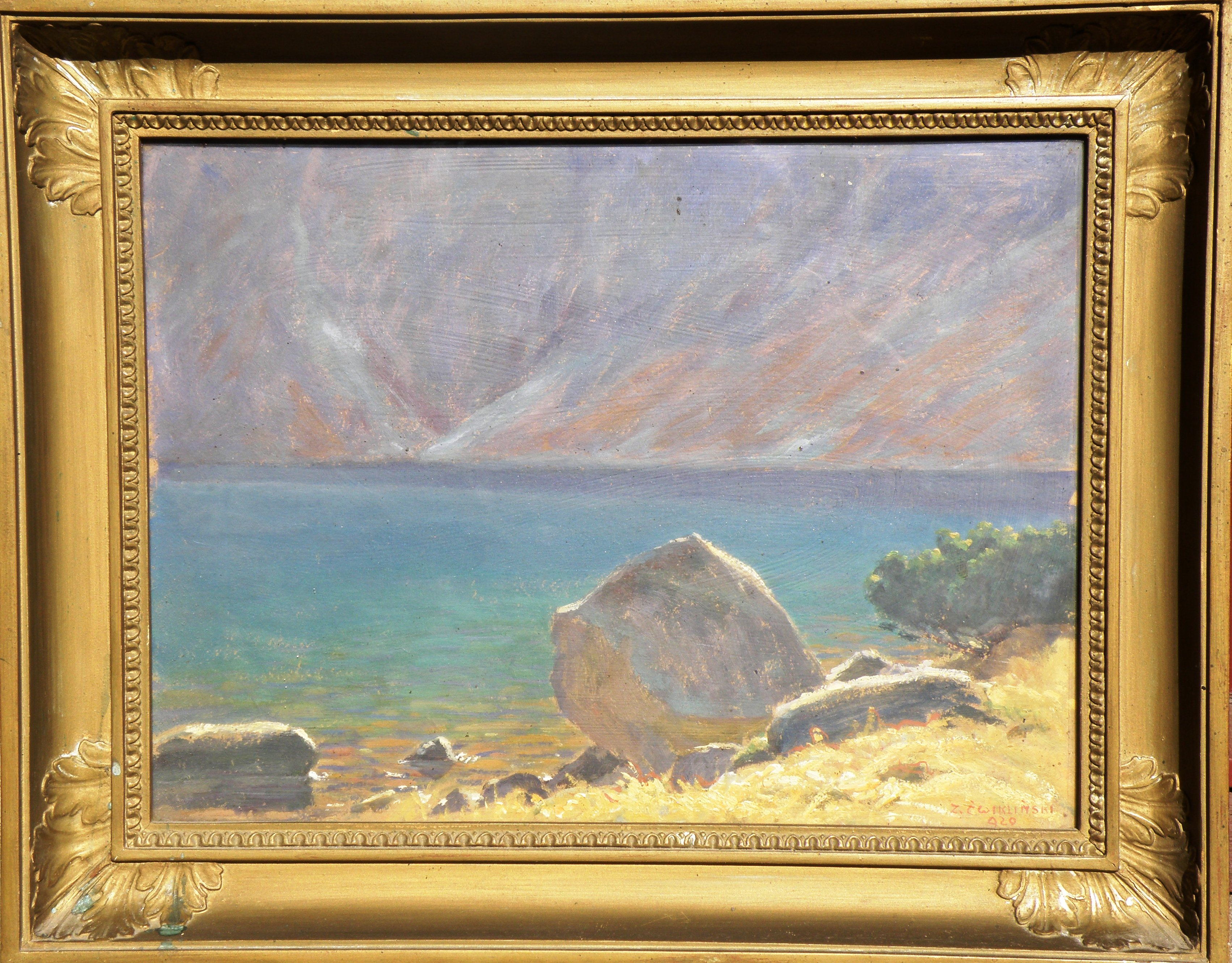 Morskie Oko by Polish painter Zefiryn Ćwikliński, 1920, private collection